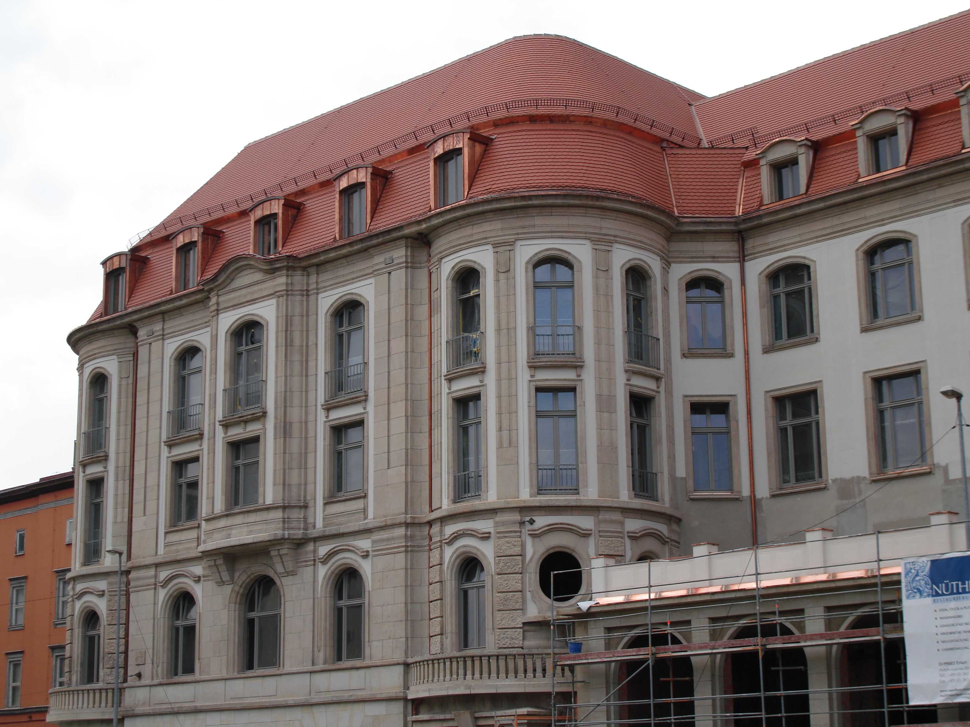 Hotel „Erfurter Hof“ after restoration